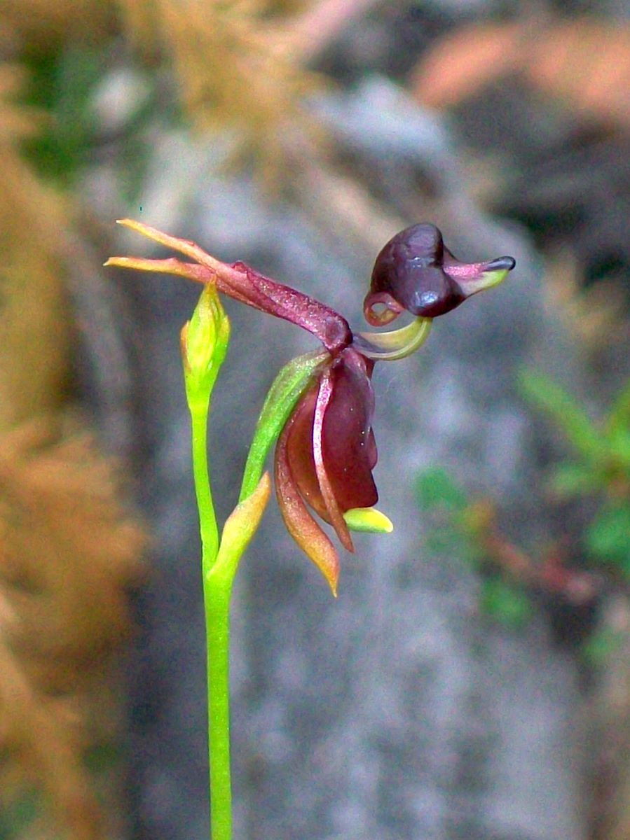 Caleana major, off Elvina Track - Ku-ring-gai Chase National Park, Australia